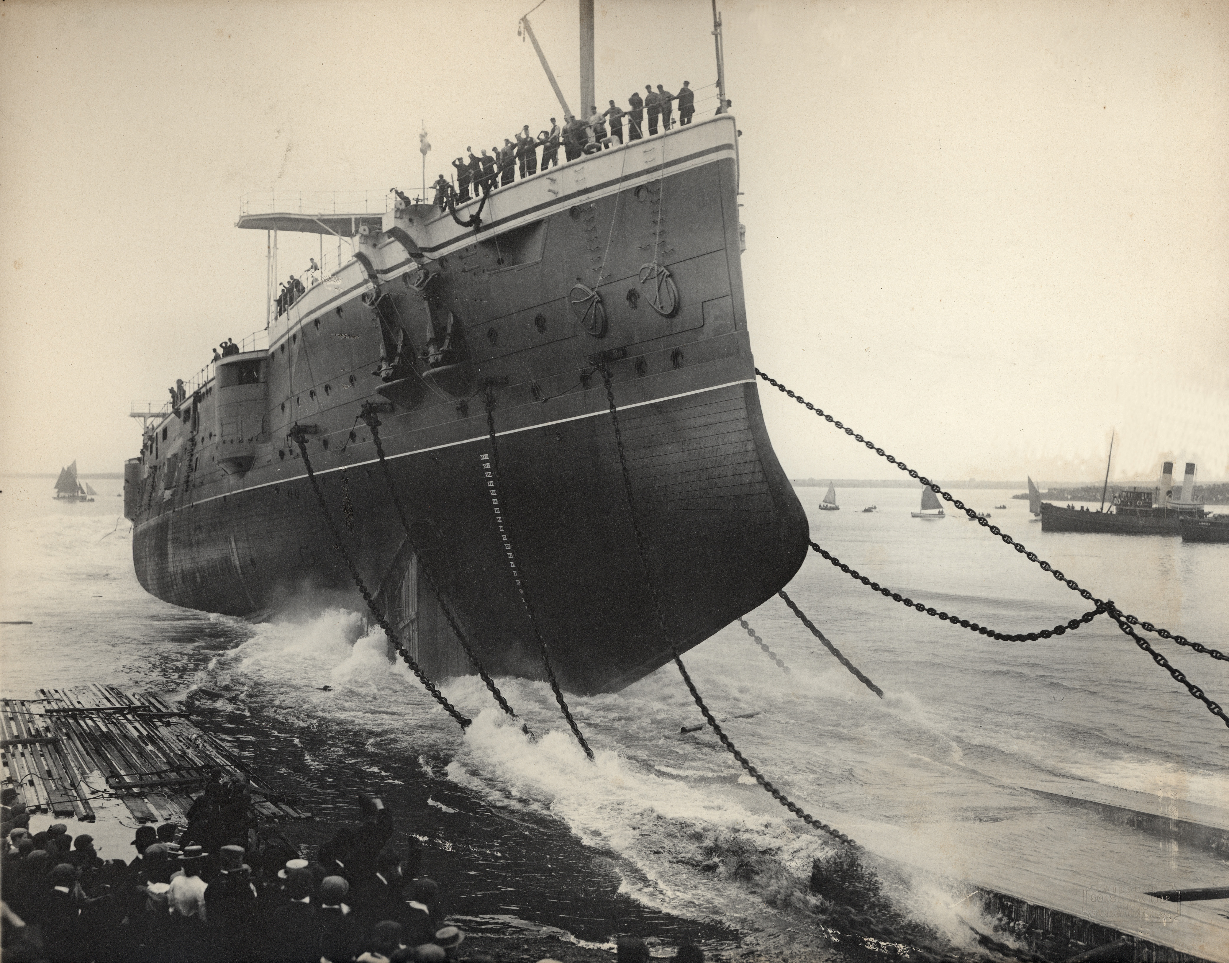 Format: Fotopositiv Dato / Date: 13 August 1900 Fotograf / Photographer: Ukjent Sted / Place: Barrow-in-Furness, England Wikipedia: HMS Hogue (1901) Wikipedia: Vickers Wikipedia: Stabelavløpning Eier / Owner Institution: Trondheim byarkiv, The Municipal Archives of Trondheim Arkivreferanse / Archive reference: Tor.H44.L01.F9327